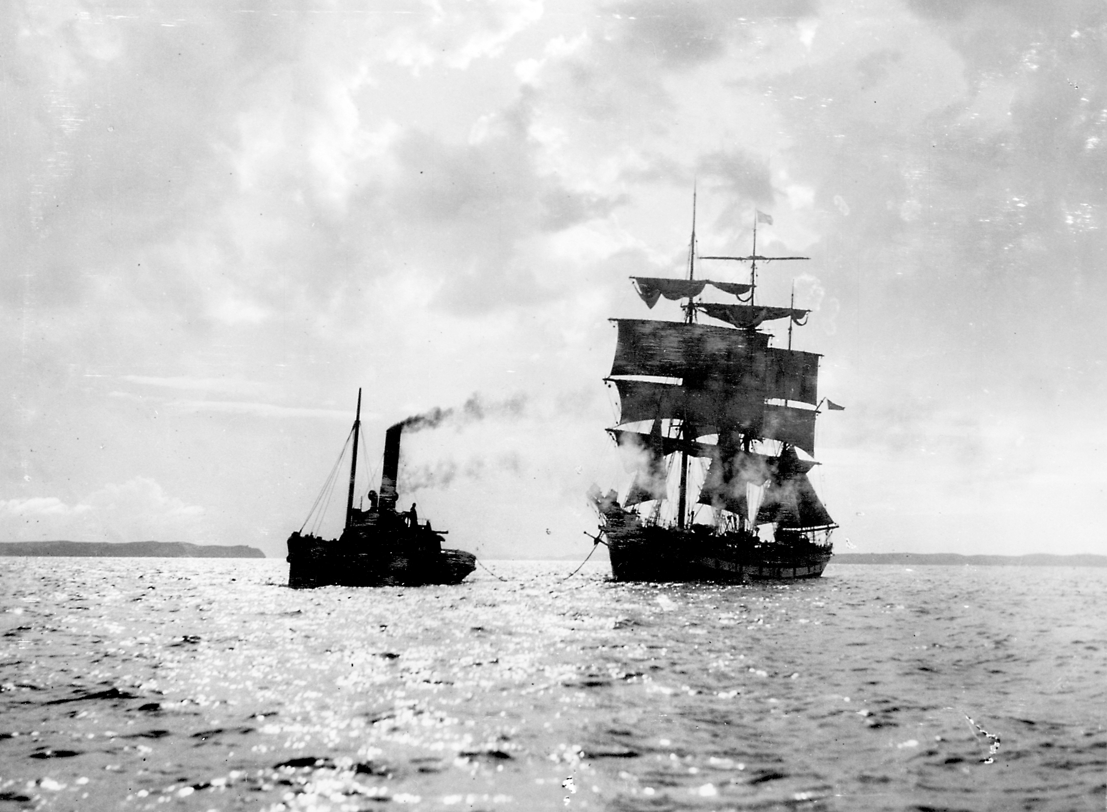 Taking in the slack of the towline; a fully rigged ship in towing near Sydney.